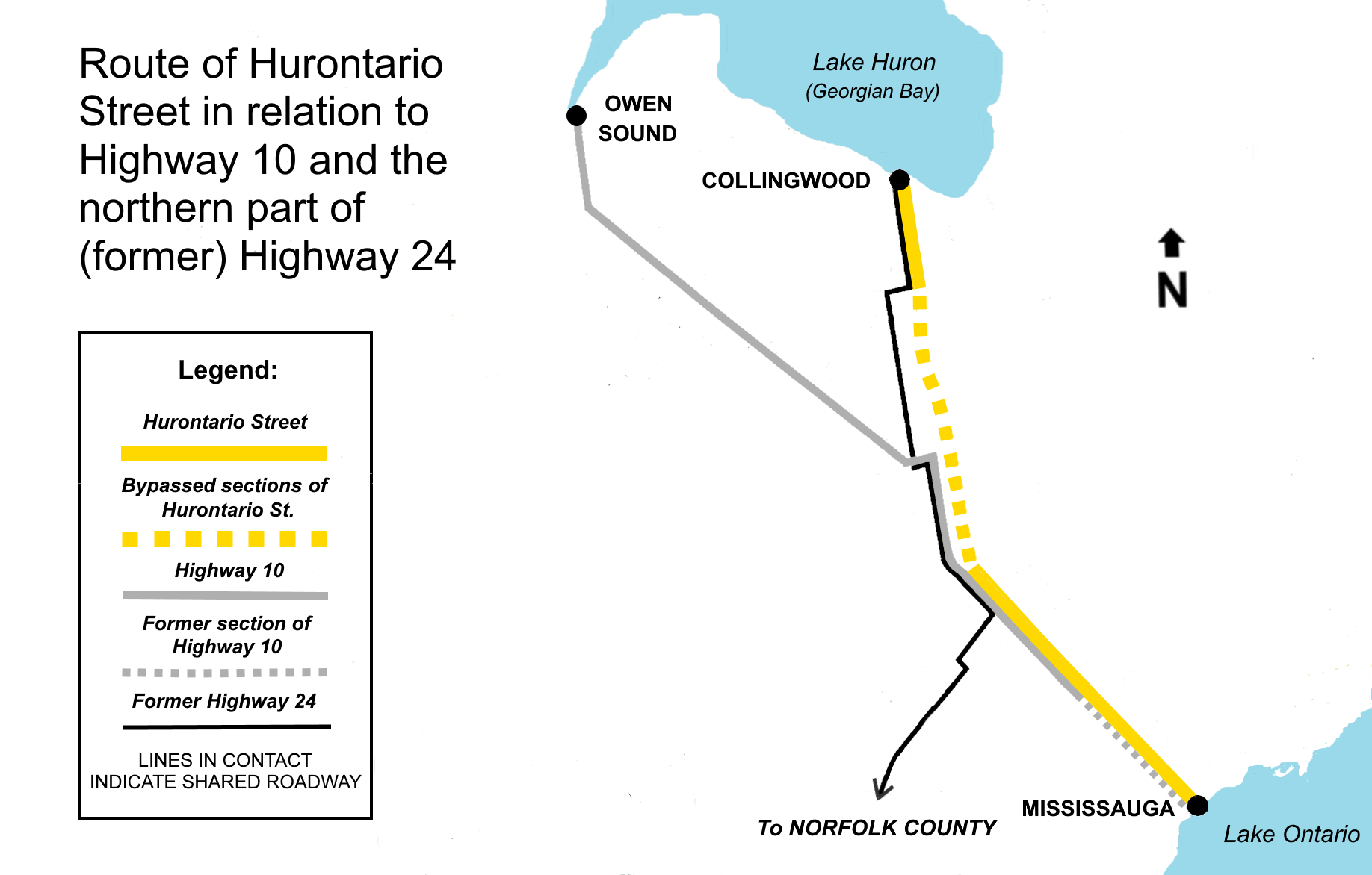 Graphic of Hurontario St. route compared to Hwys. 10 & 24